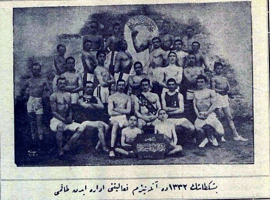 Athletic team Besiktas, 1916Türkçe: 1916 yılında aylık mecmuada yayınlanan Beşiktaş'ın atletizm takımı.